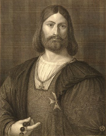 Bust portrait of a knight of Malta.